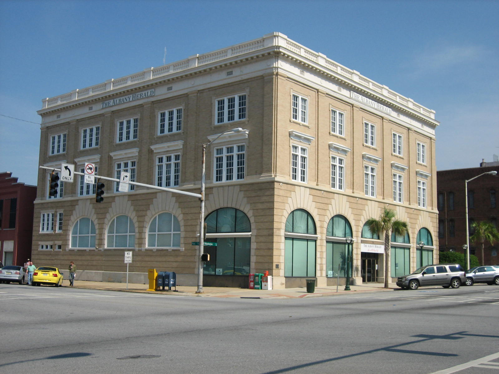 Albany Herald, 126 N. Washington St, Albany, Dougherty County, Georgia